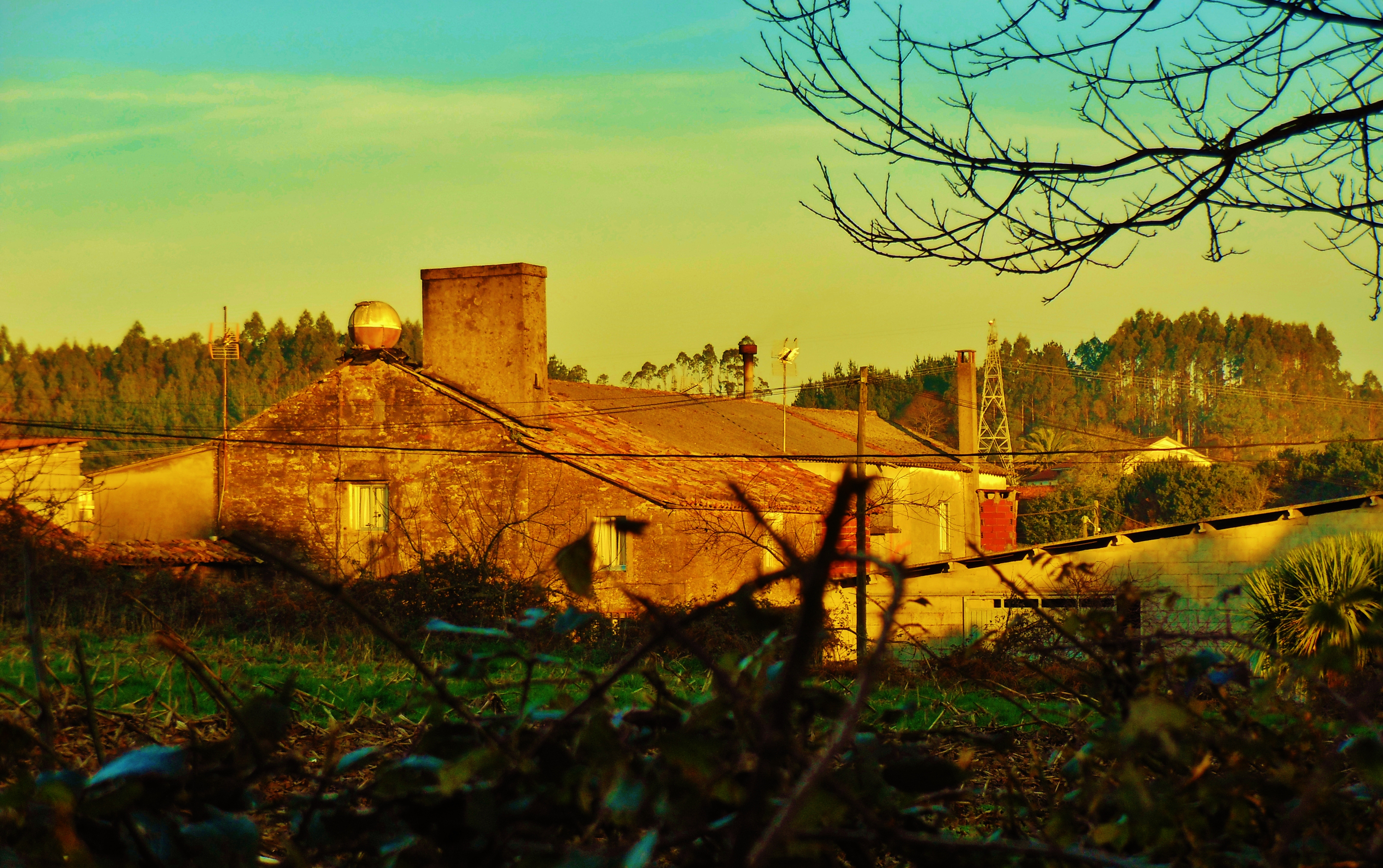 18th Century baroque mansion in the Galician countryside. It's located in Fontelo, a village of Aiazo, in Frades municipality.